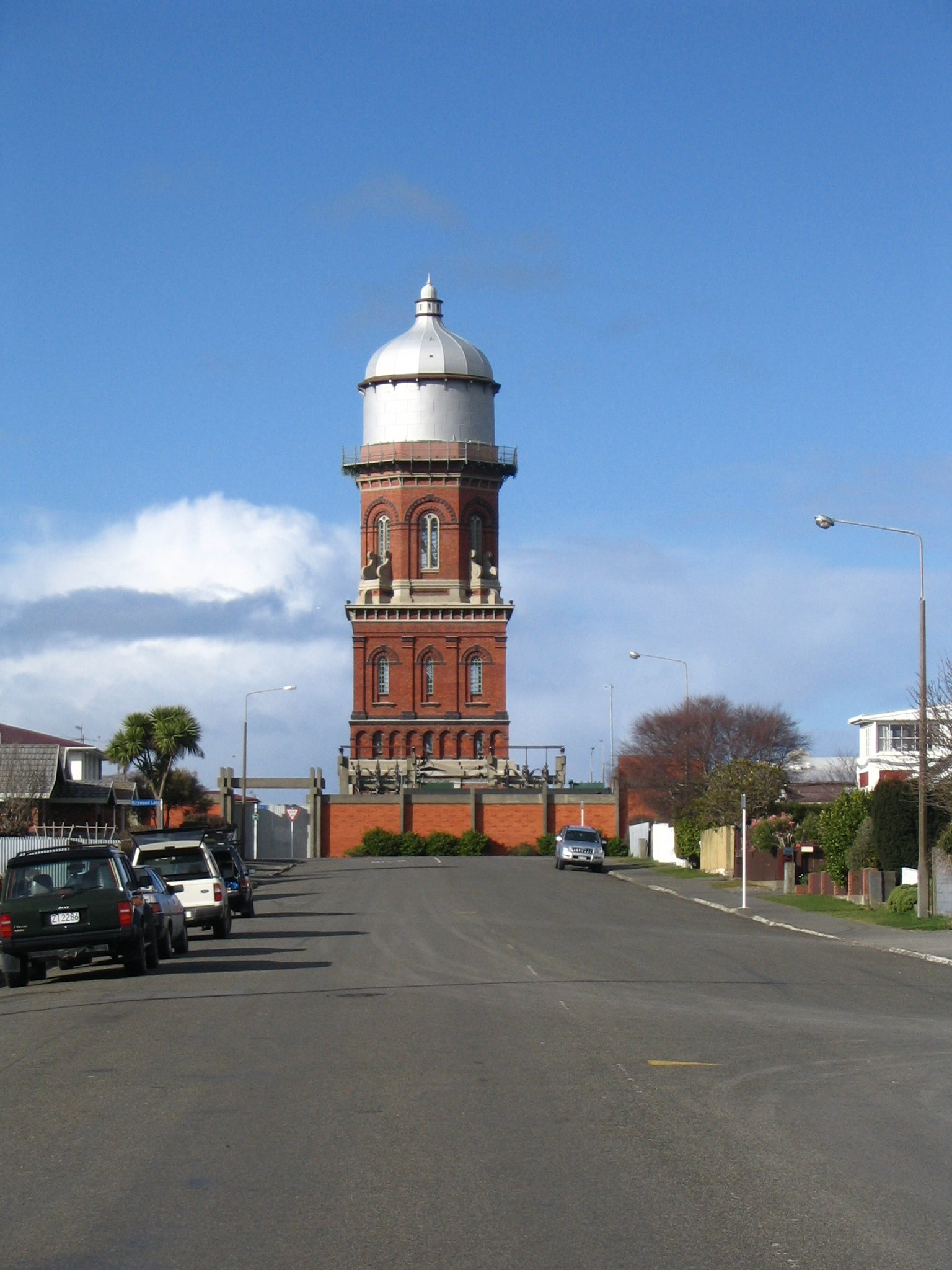 Invercargill Water Tower, New Zealand. Photographer: Willuknight 03:52, 11 November 2006 (UTC) Taken: Leet St, Invercargill, New Zealand Subject: Invercargill Water Tower